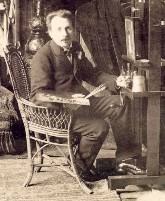 Jan van Beers in his studio, Paris c. 1887–92. Cropped from a larger original.